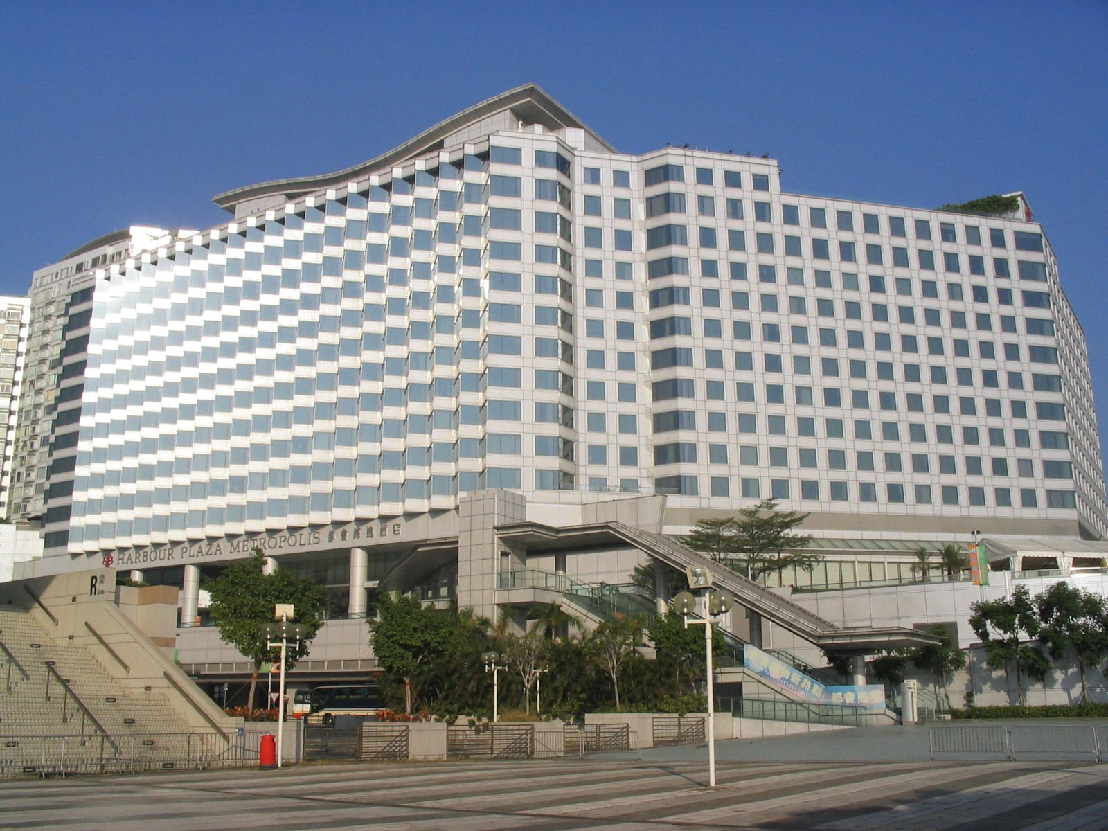 紅磡-都會海逸酒店 Harbour Plaza Metropolis, Hung Hom